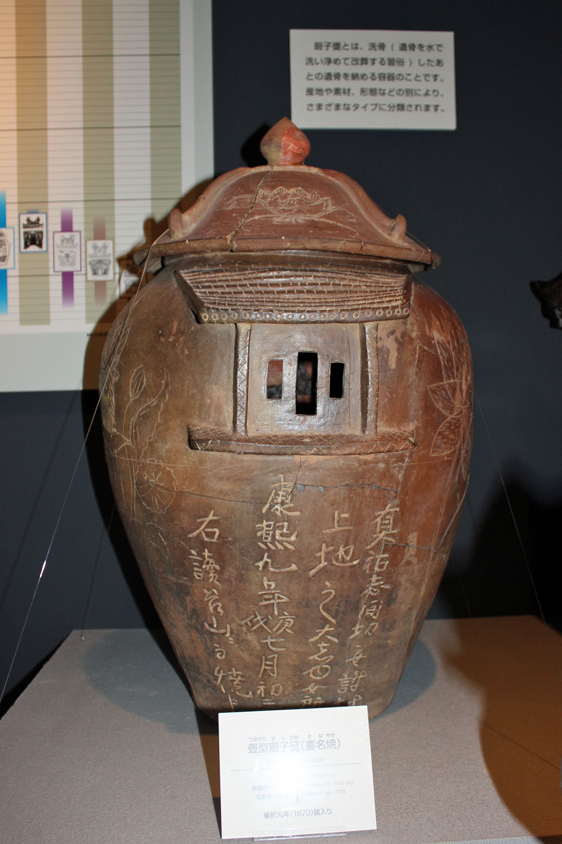 Bōjā type Urns, 1670